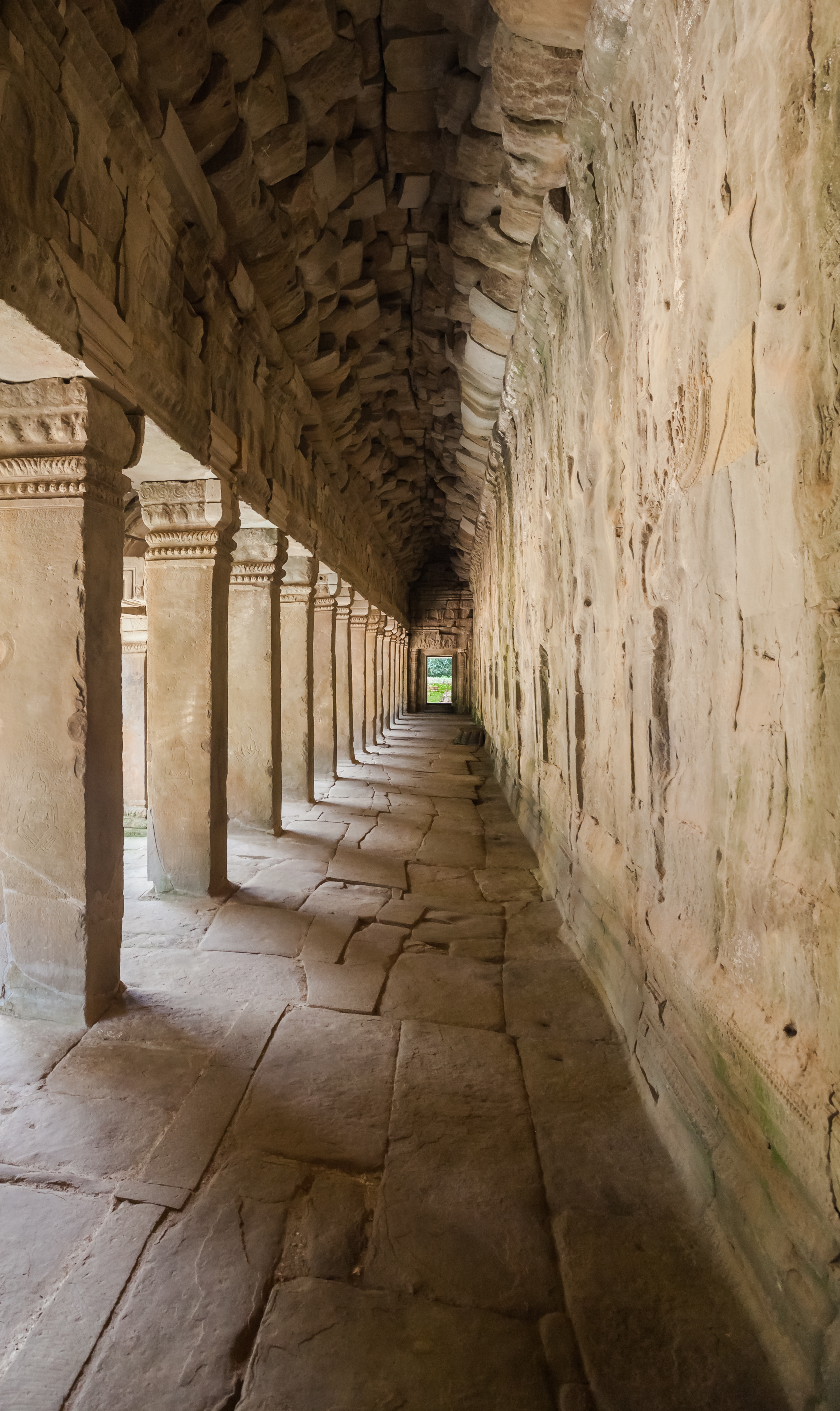 Ta Phrom, Angkor, Cambodia